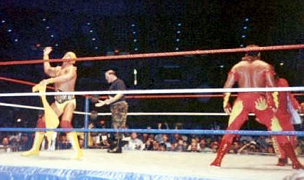 A Live Event In Albany, NY